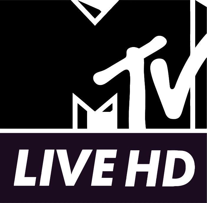 Television logo